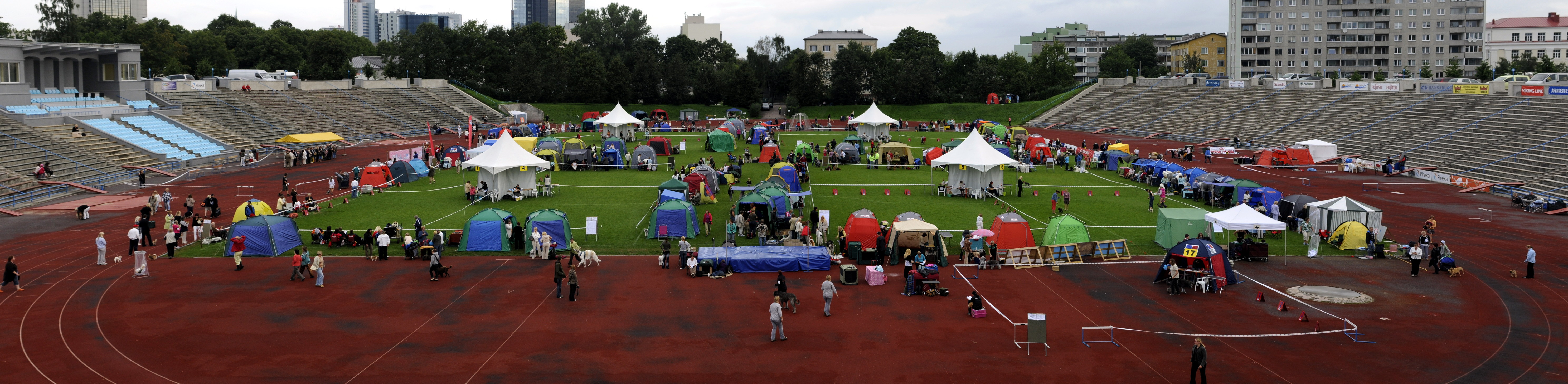 Dogshow in Tallinn. Baltic winner 2009